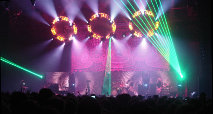 Tool Live December 12, 2006 Mannheim, DE